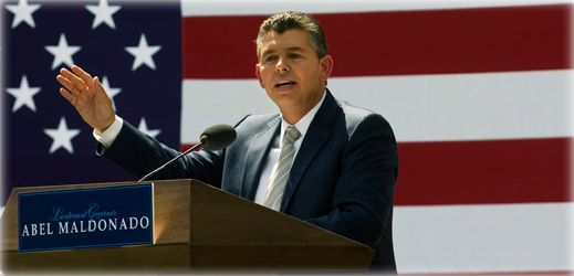 Abel Maldonado lieutenant governor of California